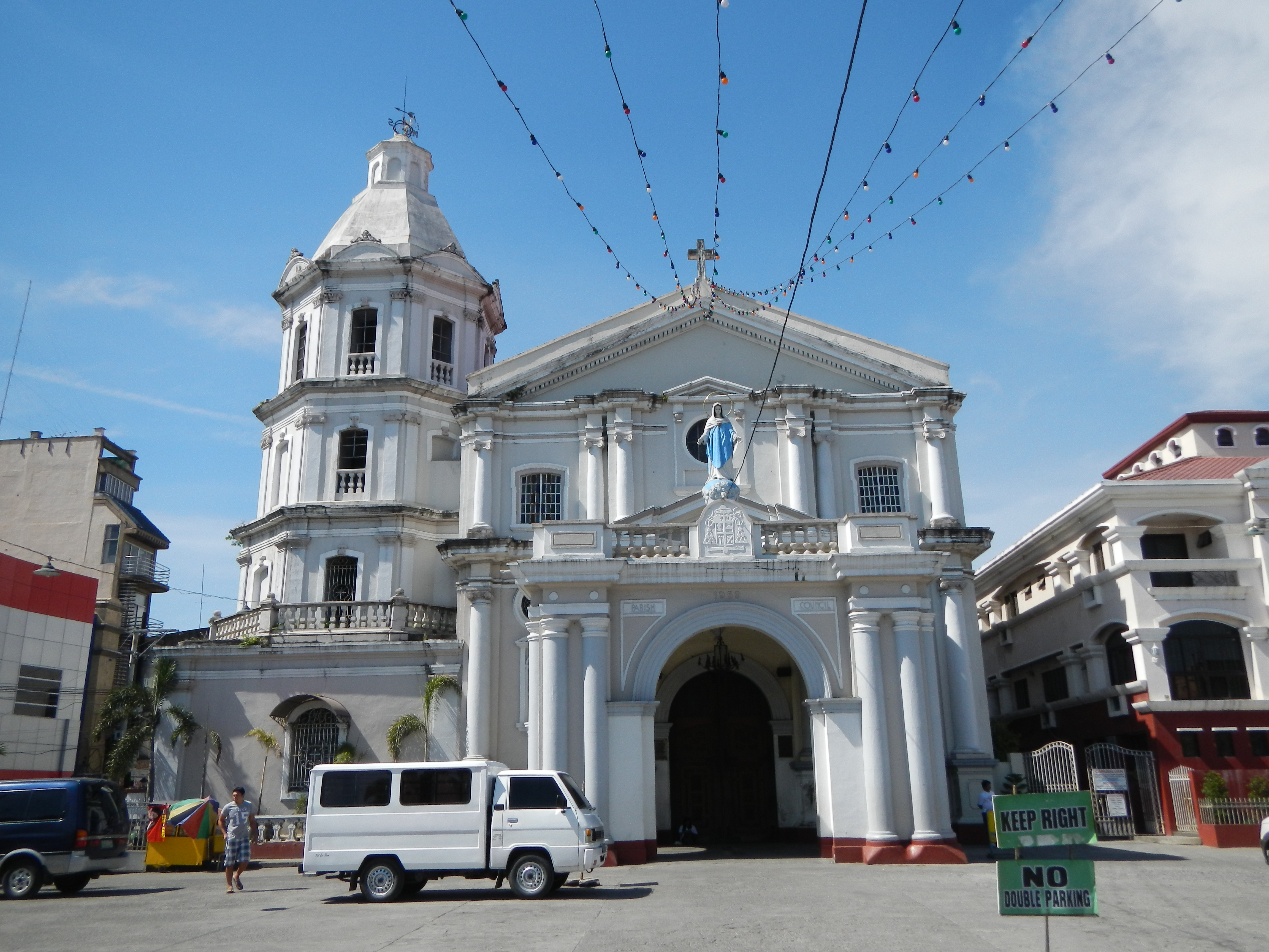 Upload Wizard photos of - San Fernando, Pampanga[1] --- City Proper, Cathedral with the aging establishments, the Baluyut Bridge and Pampanga River, with the First Concrete Pavement in the Philippines and its Marker, beside the City Hall Pampanga Hotel, among others.